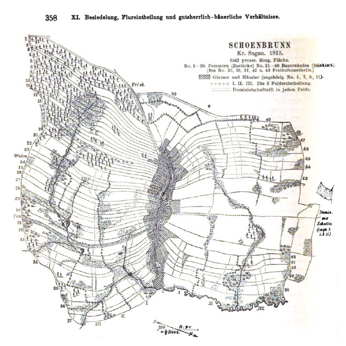 Jabłonów, settlement in the Duchy of Żagań